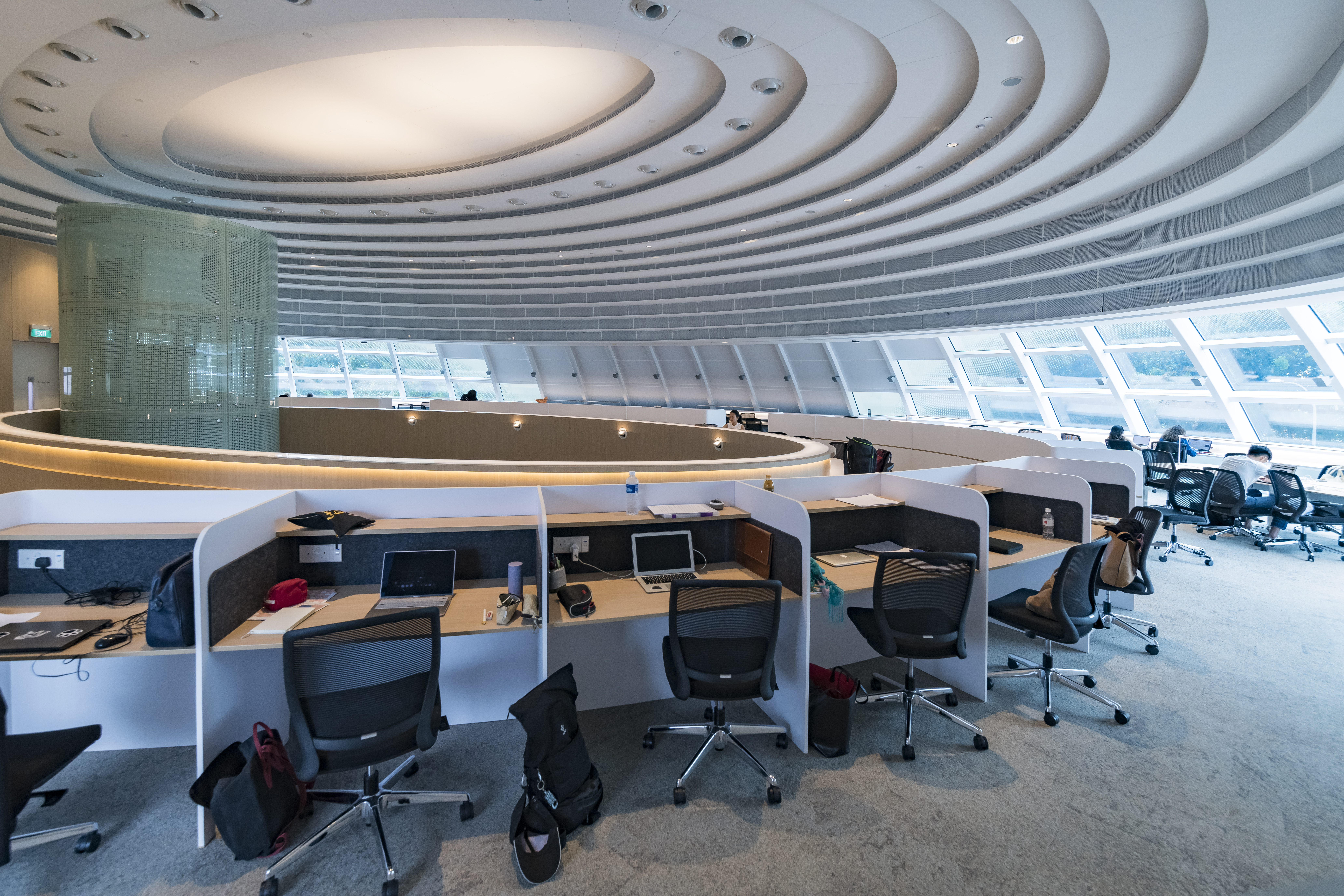 singapore management university school of law 2017 library interior